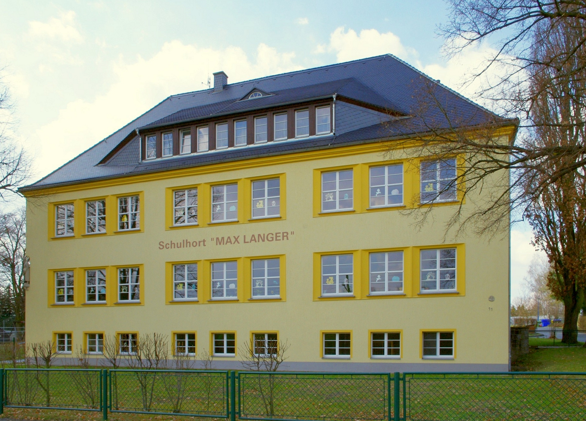 The after school care club of the elementary school in Niederoderwitz in Saxony, Germany.